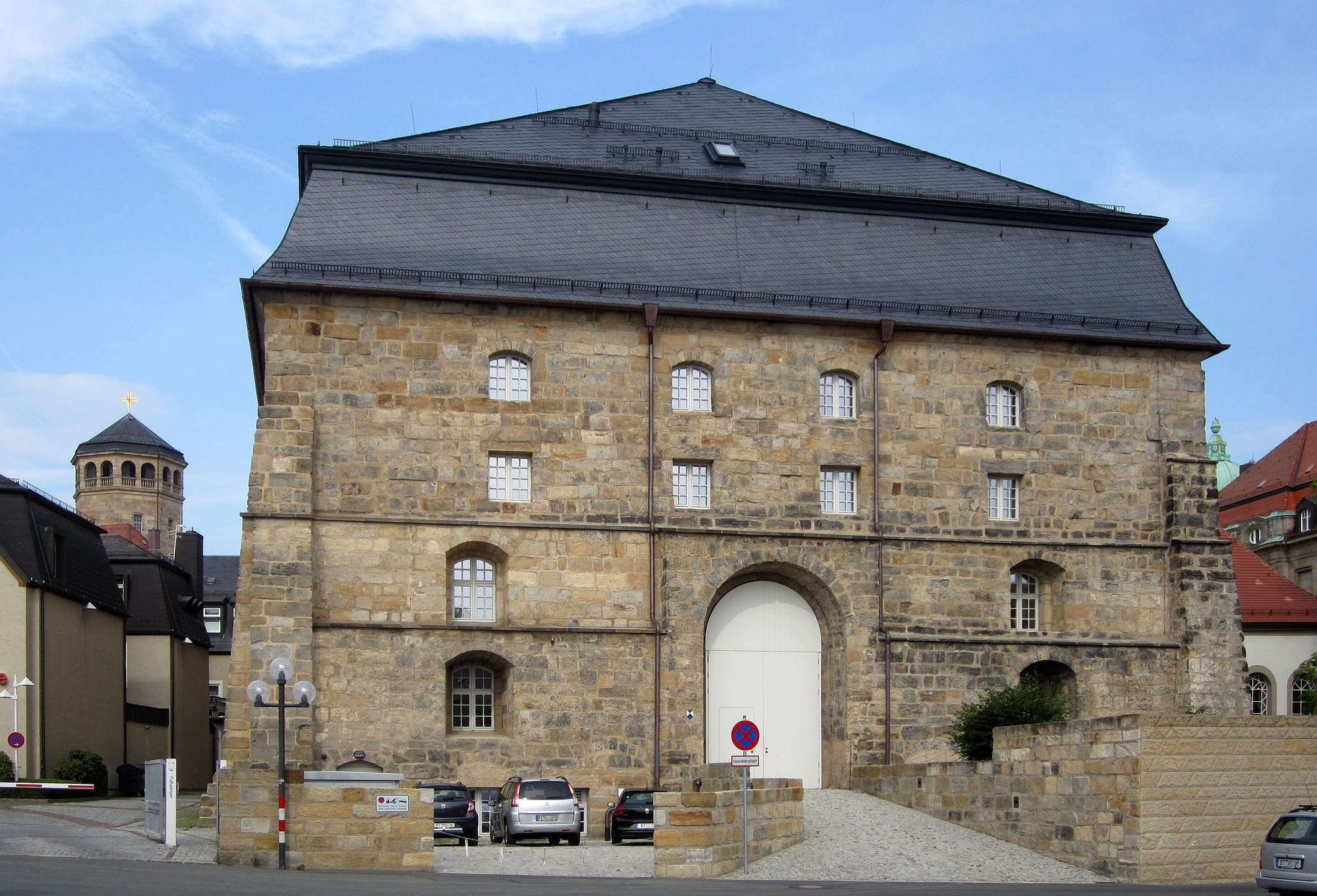 Rear view ot the Margravial Opera House in Bayreuth, 2019. Background left: Schlosskirche tower, on the right the Synagogue (whose proximity to the building prevented it from being burnt down in the November 1938 "Kristallnacht" pogroms).